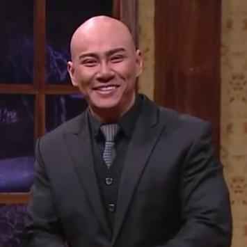 Deddy Corbuzier, Indonesian host on "Ini Talkshow" program on NET. TV.